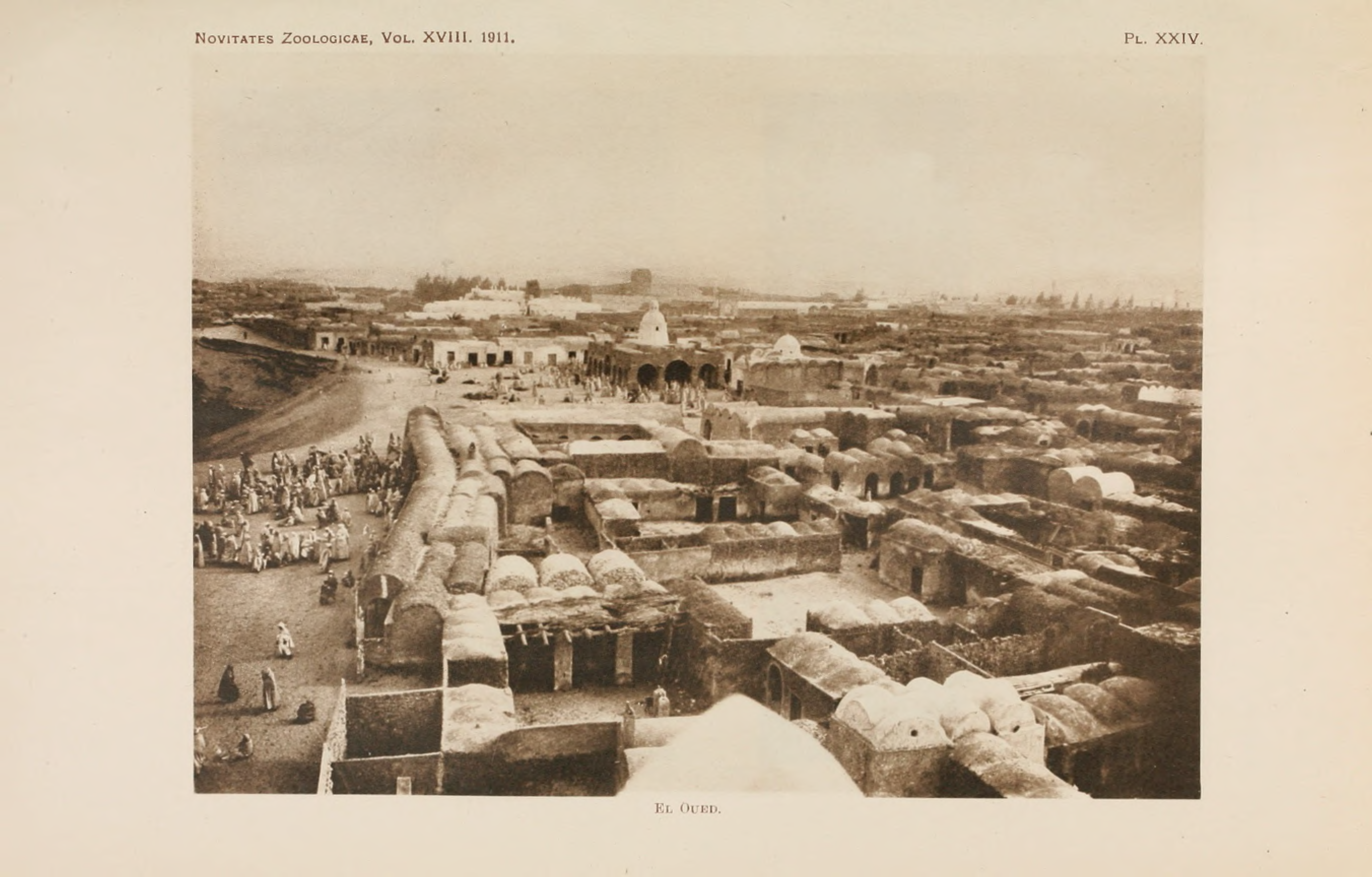 El Oued, Algeria. Coordinates are tentative.